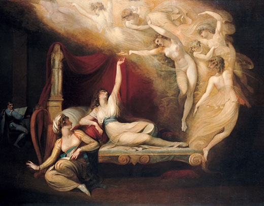 The Vision of Catherine of Aragon (RA 1781) is a history painting believed to be inspired by Shakespeare’s King Henry the Eighth, Act IV, Scene II. At this moment in the play, Katherine has just asked her attendant, Griffith to tell her about the death of Cardinal Wolsey. Although Katherine detests Wolsey for his vast ambition, his accepting of bribes for ecclesiastical favors, and his duplicitous actions, Griffith’s eulogy has made Katherine wish him peace in the afterlife. Following her conversation with Griffith, Katherine falls asleep and has a vision.